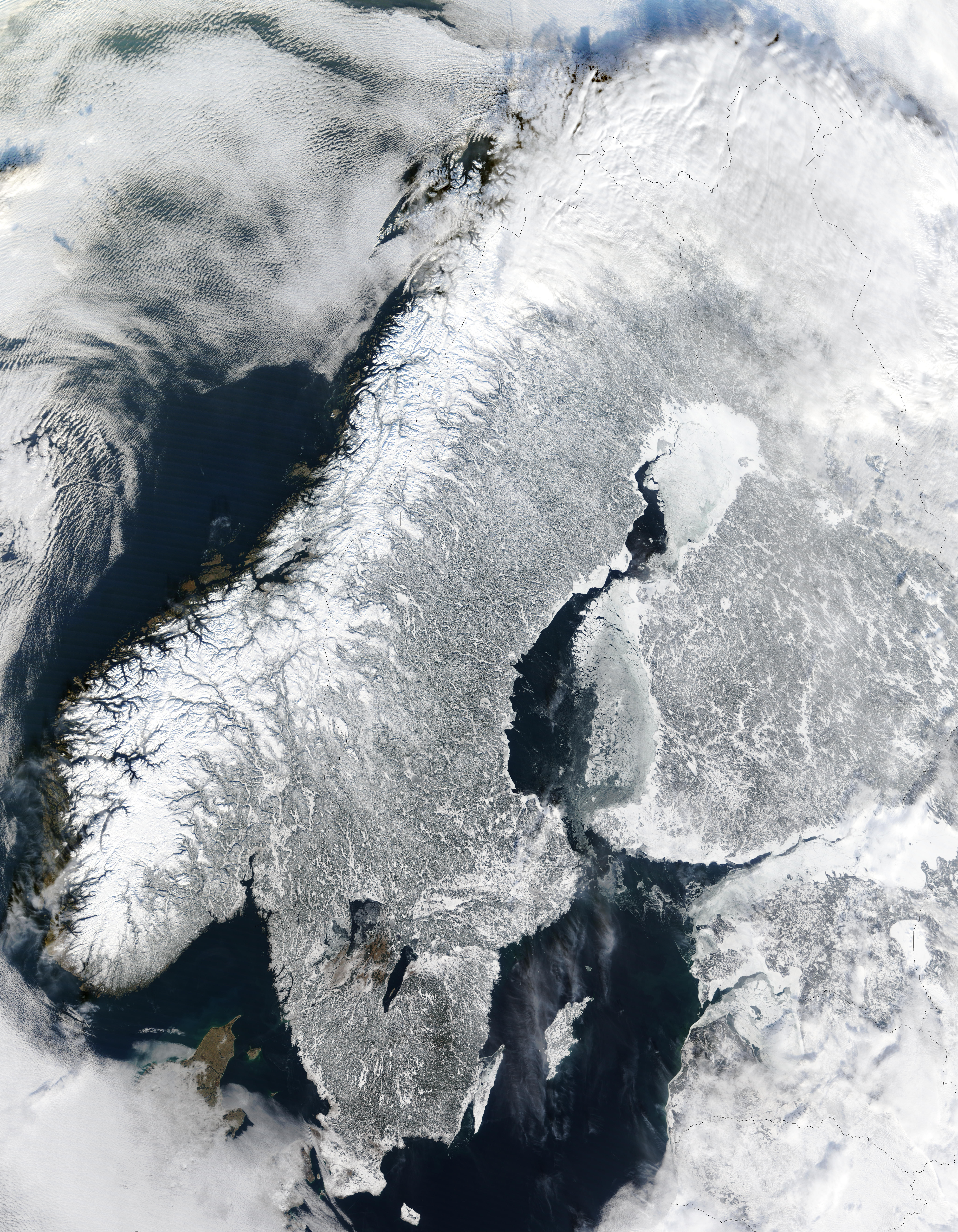 Scandinavia from space in winter. The Moderate Resolution Imaging Spectroradiometer (MODIS) instrument aboard NASA’s Terra satellite captured the above image of the Scandinavian Peninsula on February 19, 2003. With a landscape largely shaped by glaciers over the last ice age, the Scandinavian Peninsula is as picturesque in the winter as it is cold. Along the left side of the peninsula, one can see the jagged inlets, known as fjords, lining Norway’s coast. Many of these fjords are well over 2,000 feet (610 meters) deep and were carved out by extremely heavy, thick glaciers that formed during the last ice age. The glaciers ran off the mountains and scoured troughs into Norway’s coastline with depths that reached well below sea level. When the glaciers melted, the seawater rushed into these deep troughs to form the fjords. The deepest fjord on Norway’s coast, known as Sogn Fjord, lies in southwest Norway and is 4,291 feet (1,308 m) deep. Glaciers also carved the mountains in Norway and northernmost Sweden. South of this mountainous region, however, Sweden consists mostly of flat, heavily forested land dotted with lakes. Lake Vänern and Lake Vättern, the largest of Sweden’s lakes, do not freeze completely during the winter months and can be seen clearly at the bottom of the peninsula. Lake Vättern, the smaller of the two lakes, was connected to the Baltic Sea during the last ice age. After the ice melted, a tremendous weight was lifted off of the peninsula, and the landmass rose up to separate the lake from the Baltic Sea. To the northeast of the peninsula lies Finland with more than 55,000 lakes, most of which were also created by glacial deposits.